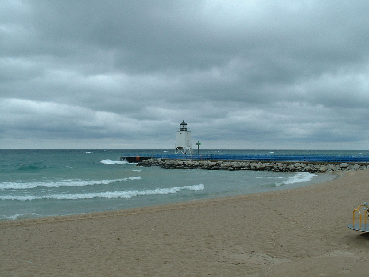 Depicted place: Charlevoix South Pier Light Station